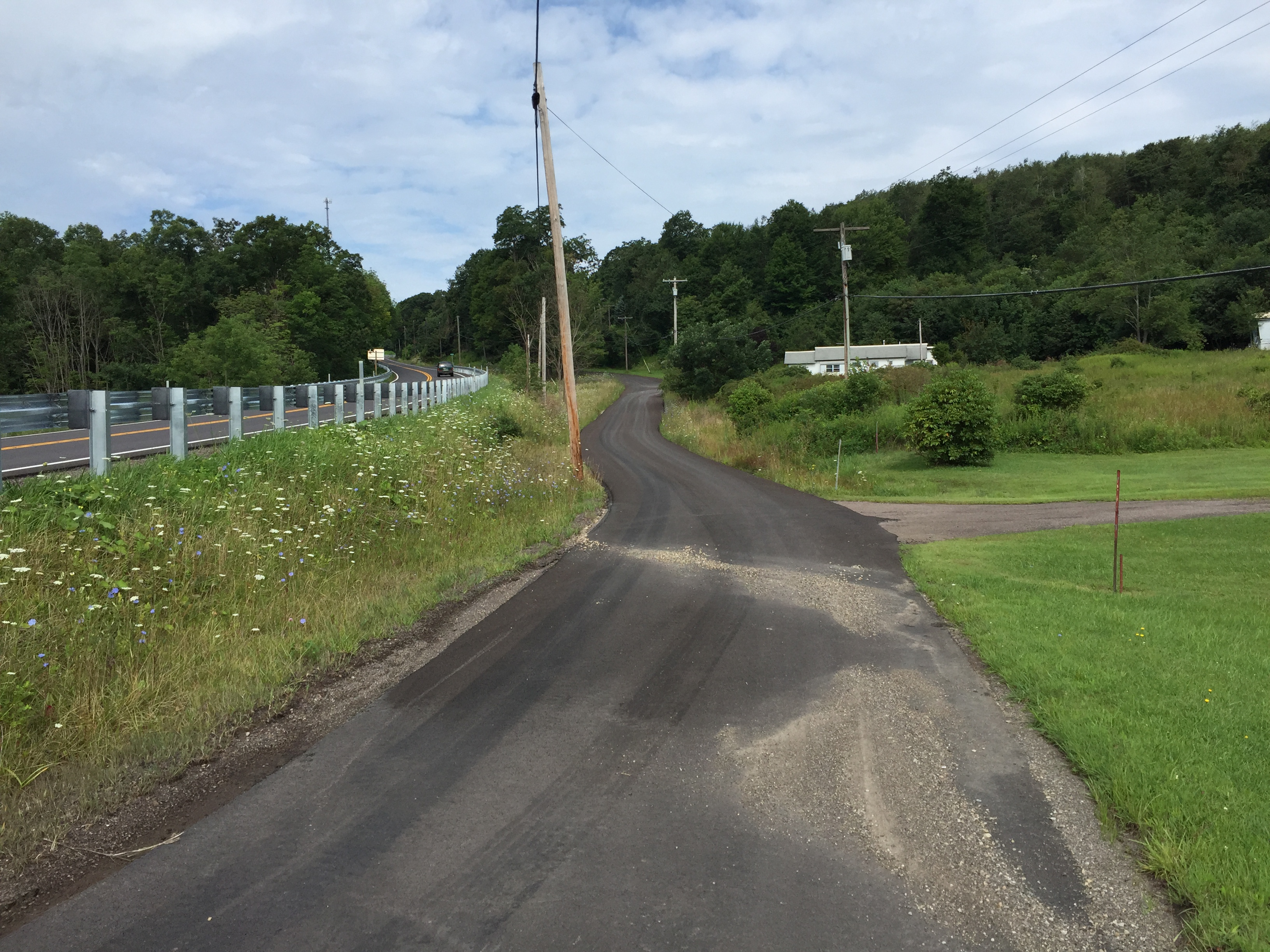 View west along Maryland State Route 733 (Guthrie Lane) at U.S. Route 40 Alternate (National Pike) in Piney Grove, Garrett County, Maryland